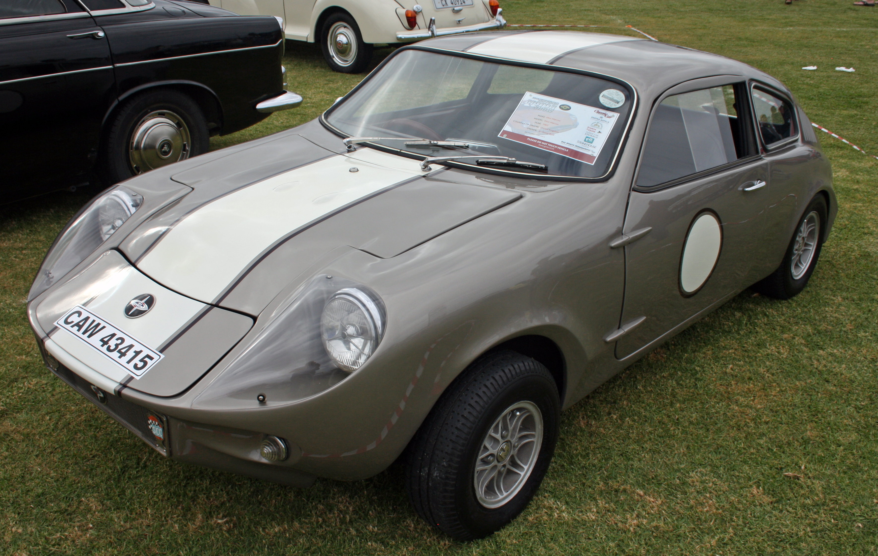 A 1965 Mini Marcos at a car show in South Africa